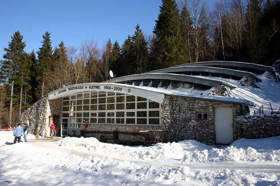 Bear Cave in Kletno, enter (Lower Silesia, Poland)